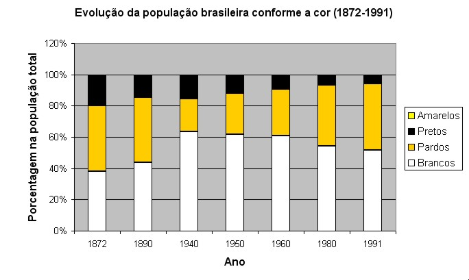 Evolution of the Brazilian population according skin color from 1872 to 1991. Percentages of each group in total population.